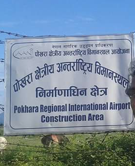 Sign board at International Airport in Pokhara